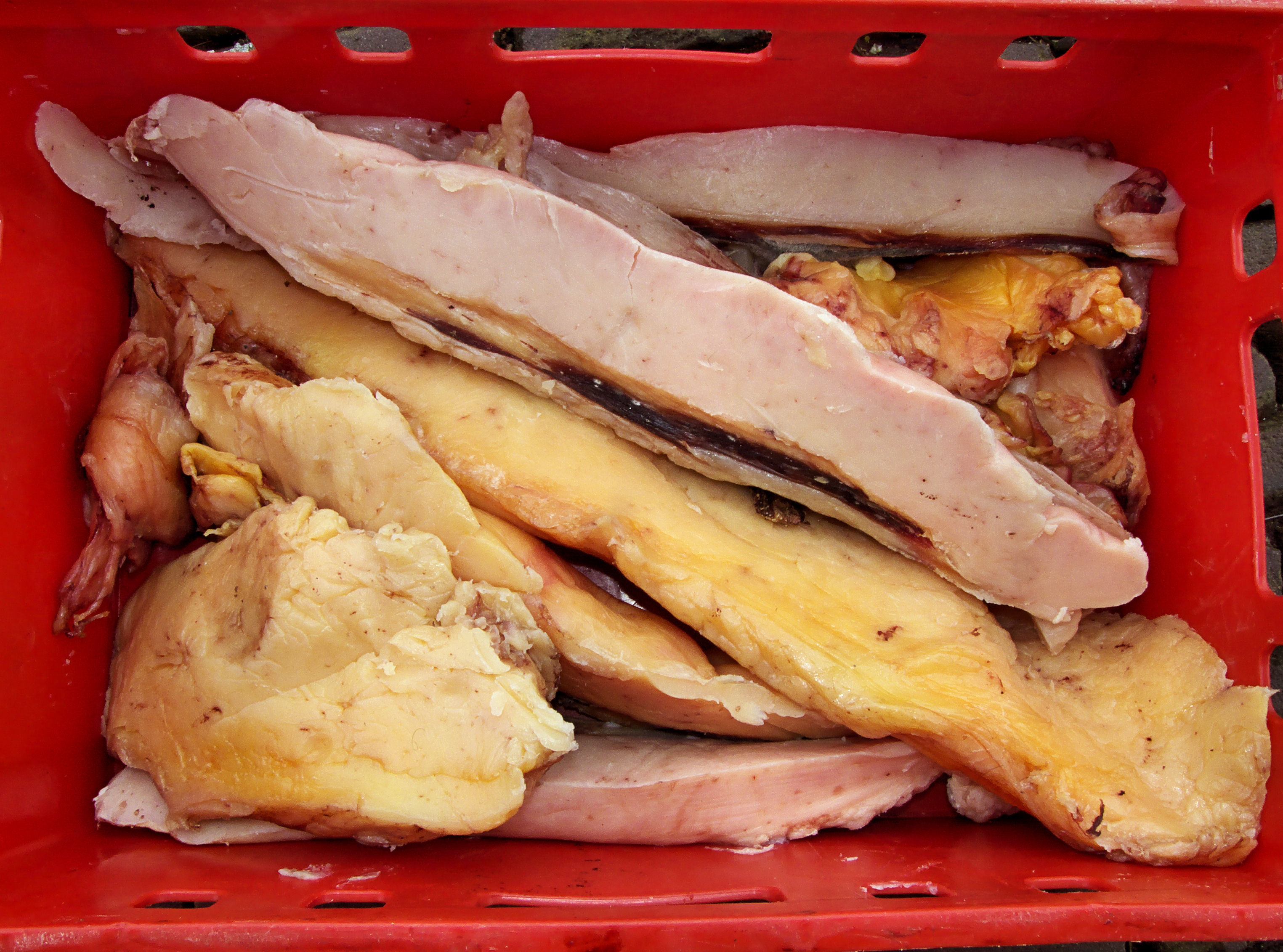 Horse fat